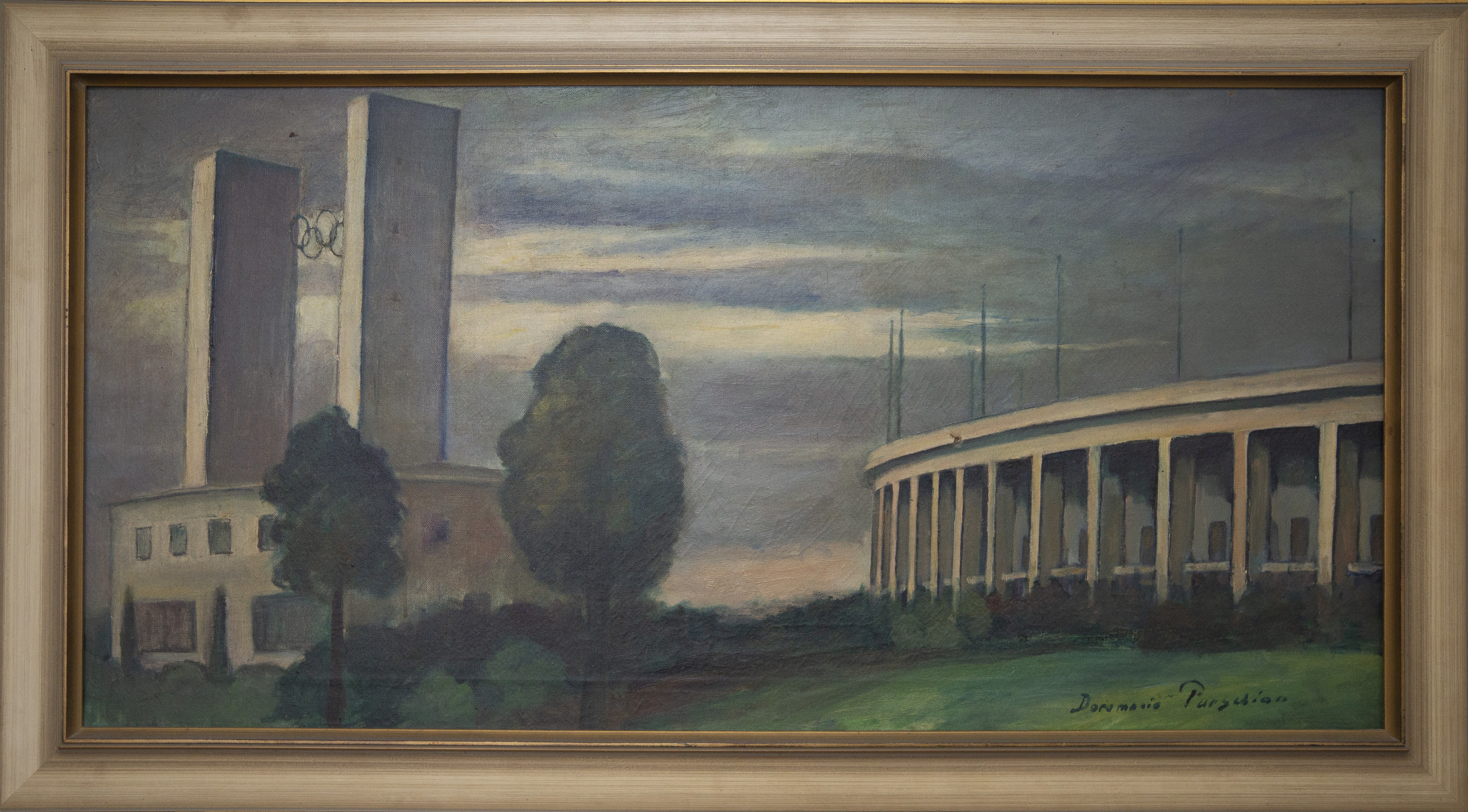 Panoramic view of the Olympiastadion, Berlin